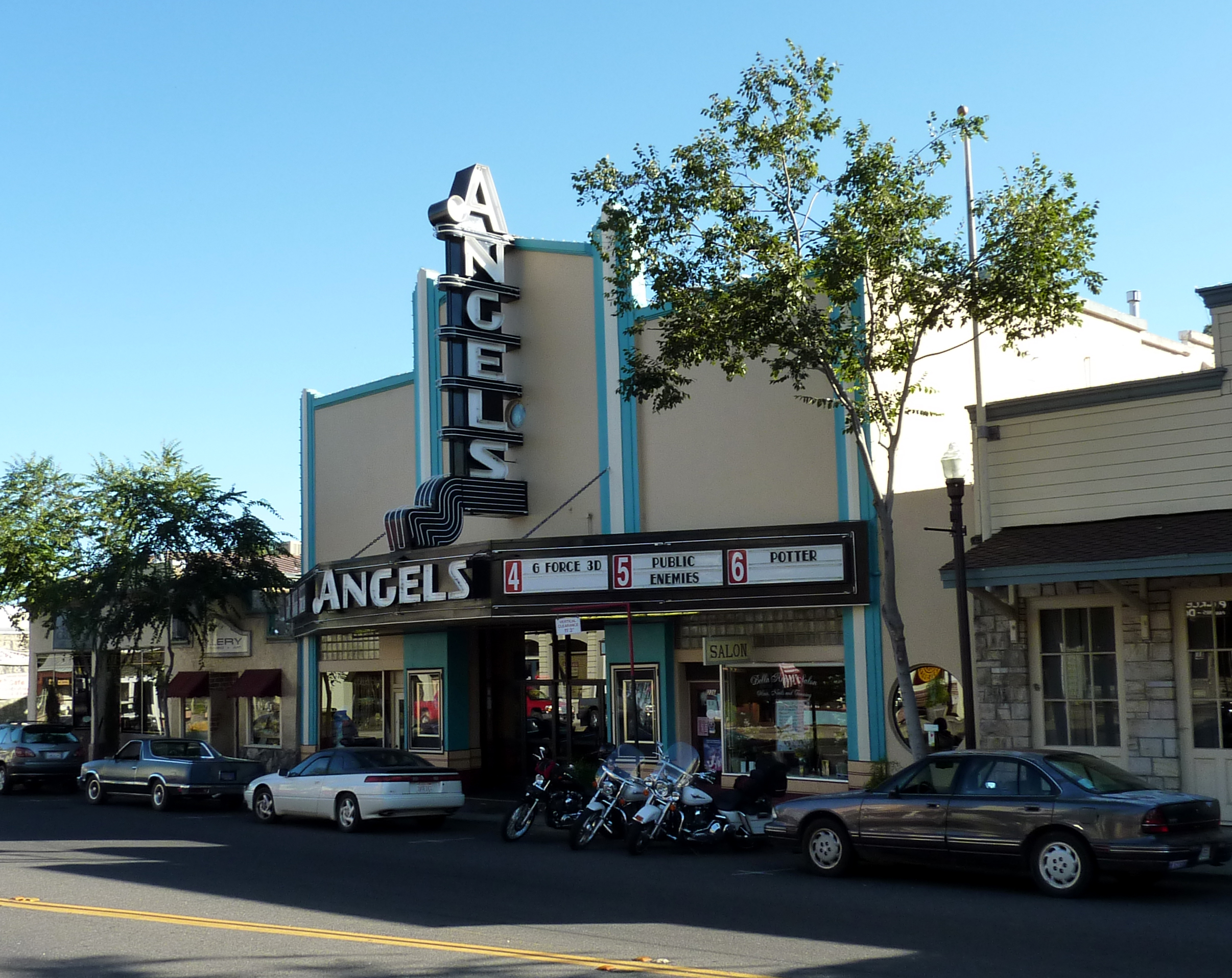 Built in 1936, the Angels Theatre was restored in 1999 and split from one into three screens and later two more added to the building, Angels Camp, California, USA.